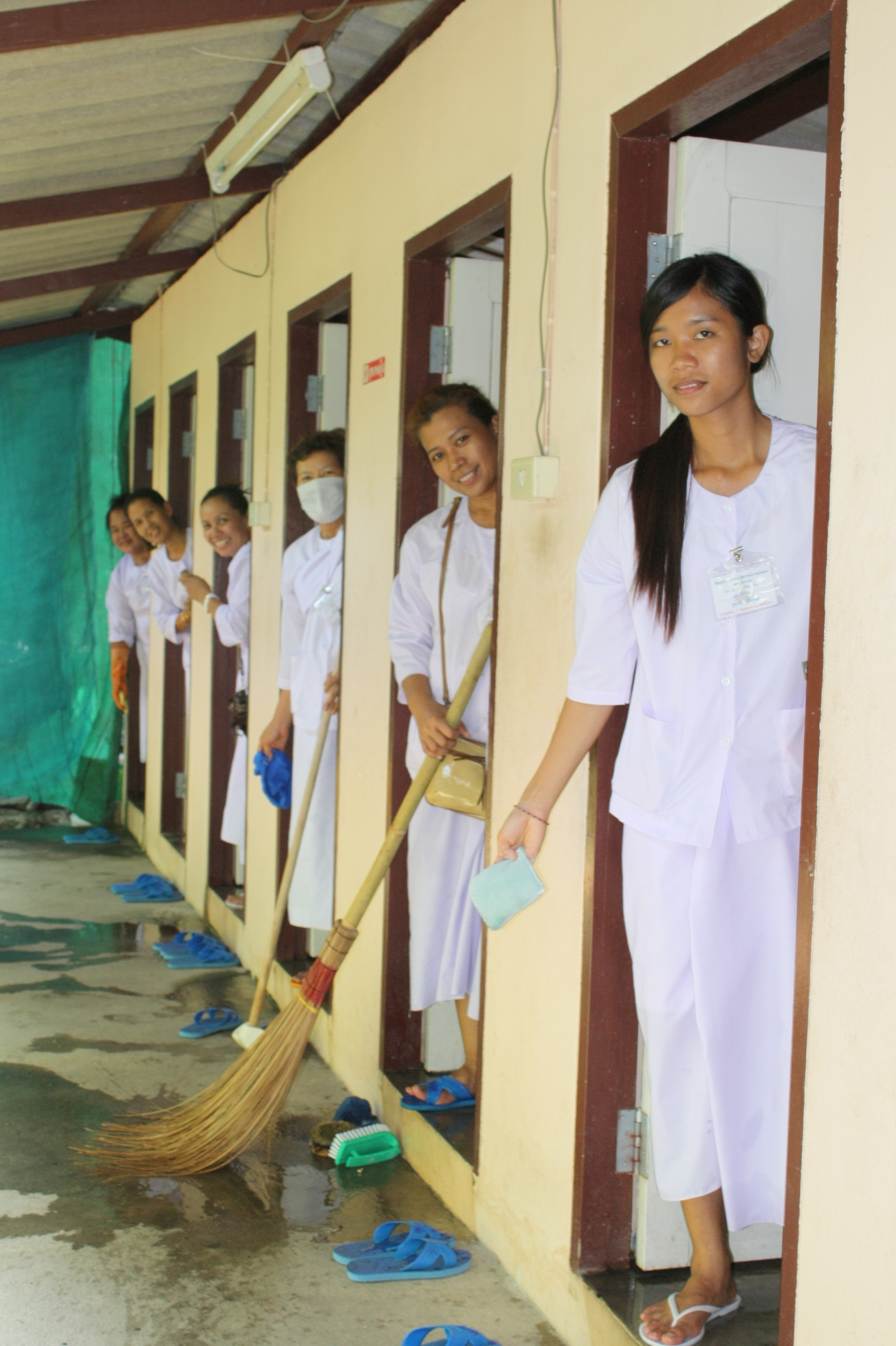 Cleaning activities during a retreat